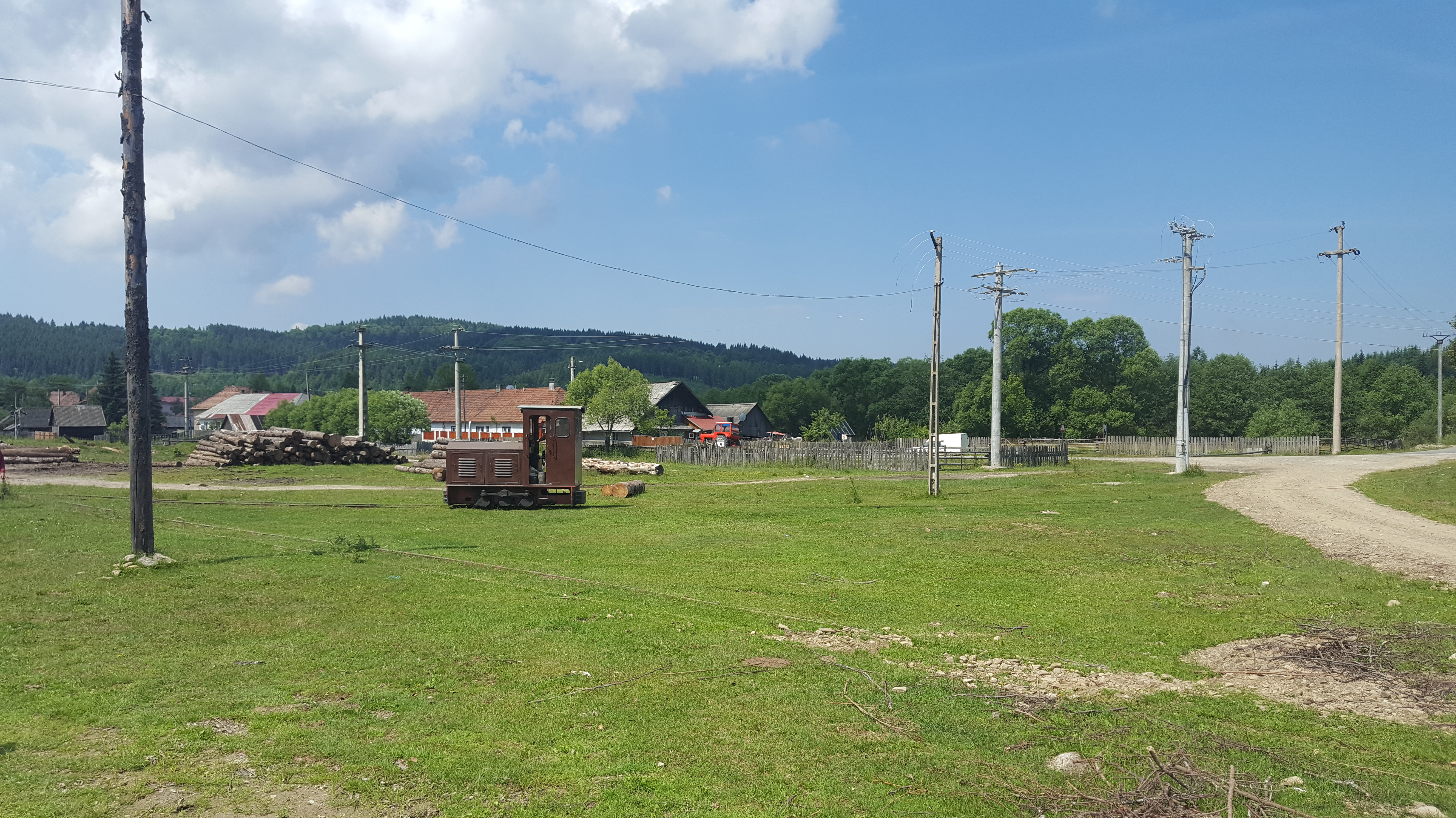 A narrow-gauge engine on a triangular-shaped track in Comandău, Romania